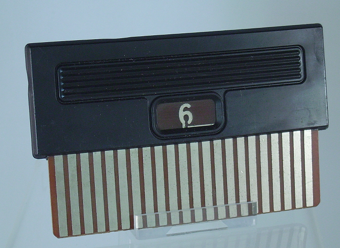 No 6 cartridge of magnavox oddysey